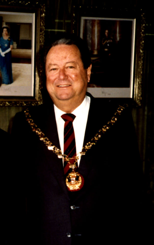 Reg Withers, former Australian Senator, taken during his time as Lord Mayor of Perth in June 1991.